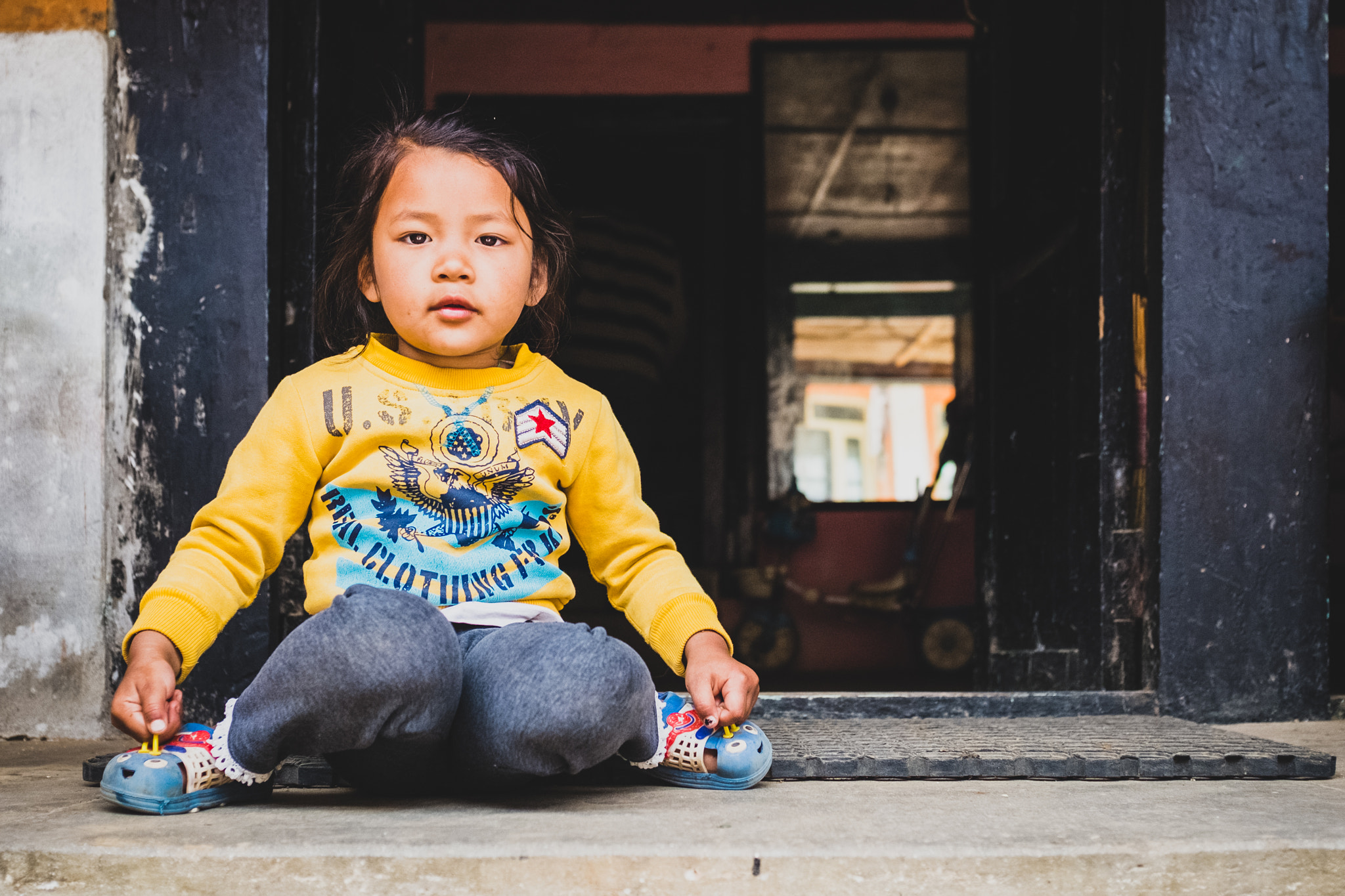 500px provided description: A village near Namo Buddha, Nepal [#flickr ,#iceboxcool]